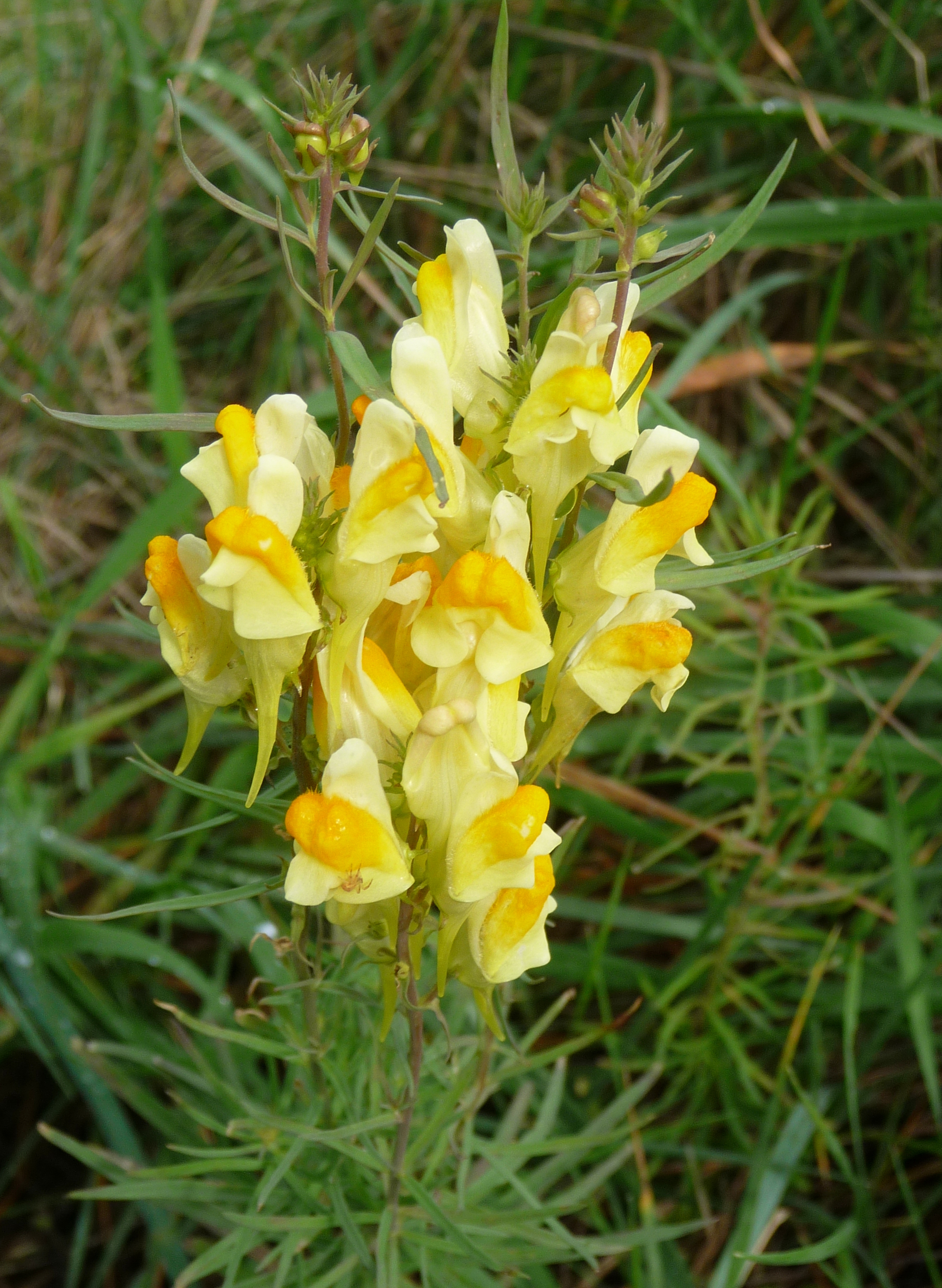 Linaria vulgaris, near Livorno, Italy